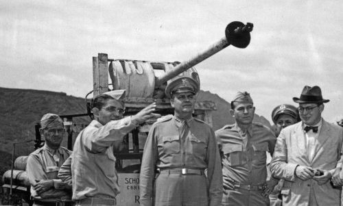 Capt. J.P. Bolanowski, of Col Unmacht's staff, points to the intended target of the school training model of the coaxial H1a-H5a flamethrower. The visitors are Lt. Gen. Wilhelm D. Styer, Col. J.C. Whitehair, & H.C. Peterson Ass't to Under Sec'y War